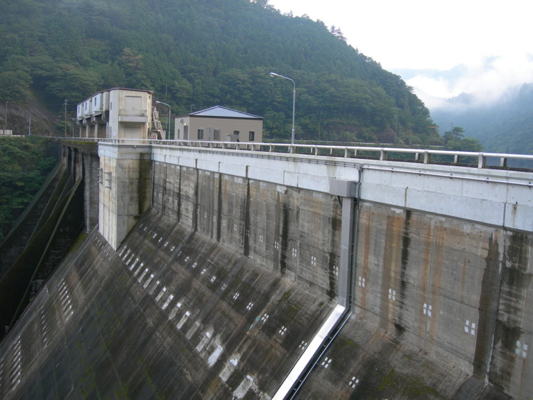 Miyagawa-dam at Odai town Taki District Mie Pref. Japan.